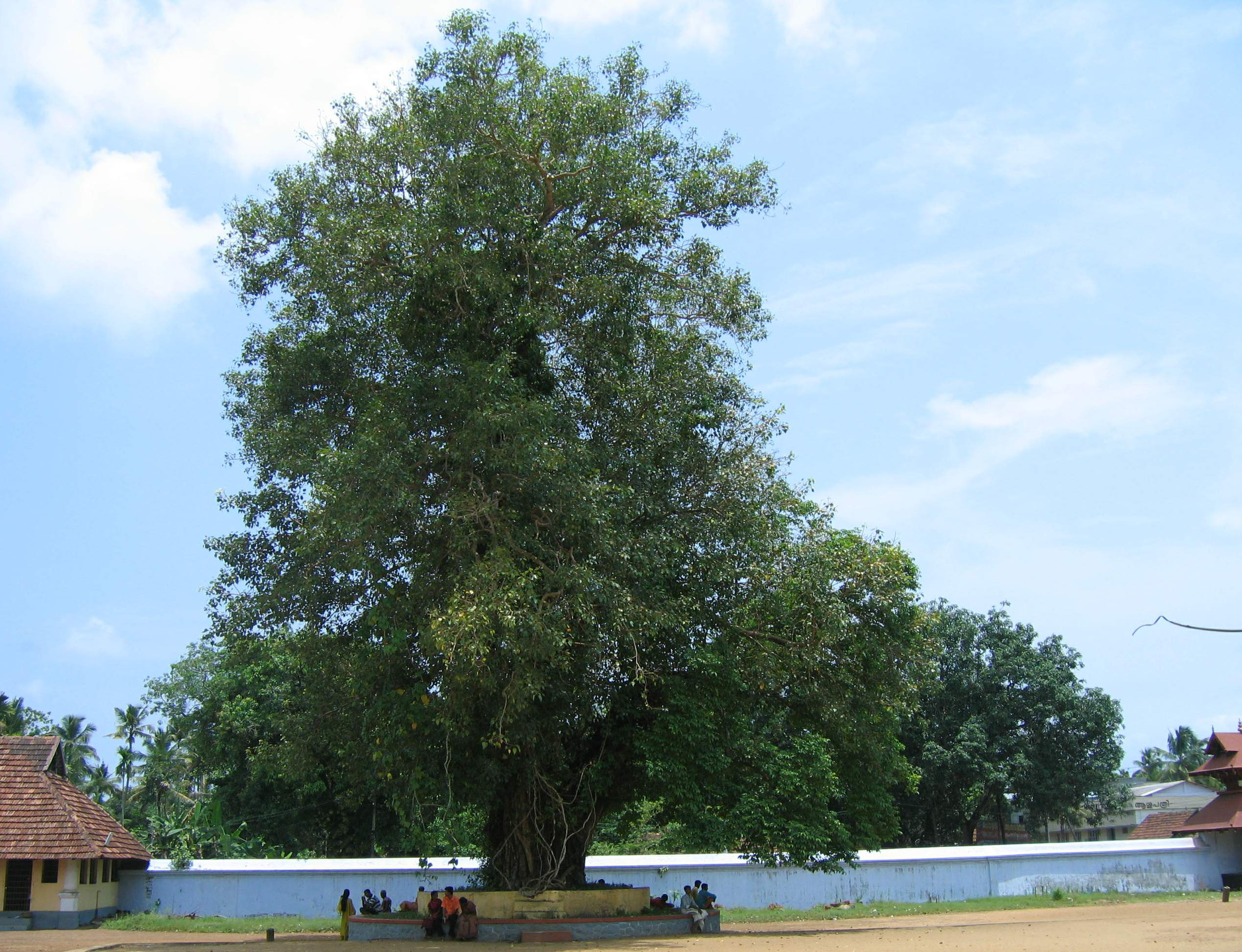 Vaikkom temple, a tree inside